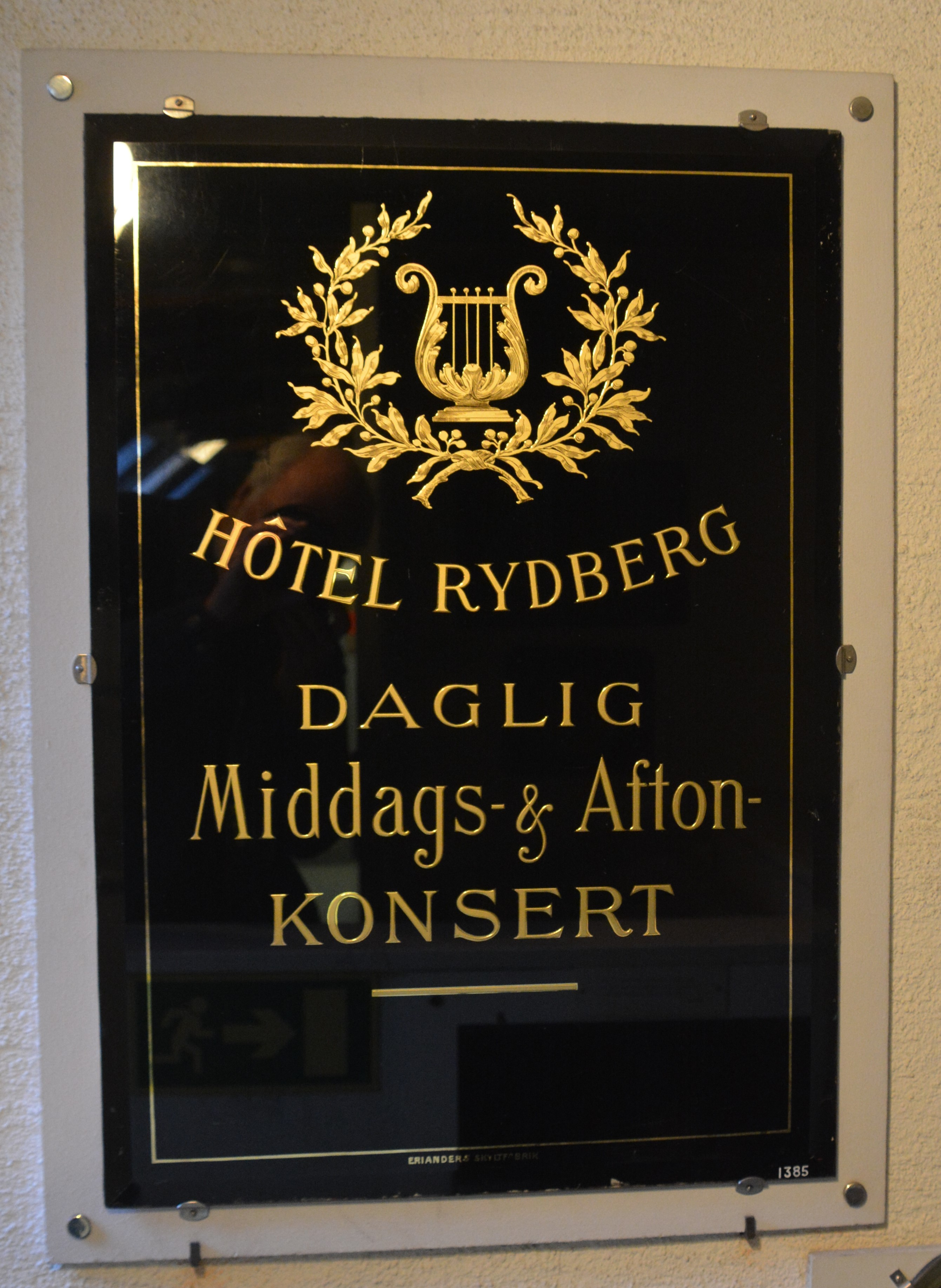 Sign at Hôtel Rydberg, Stockholm